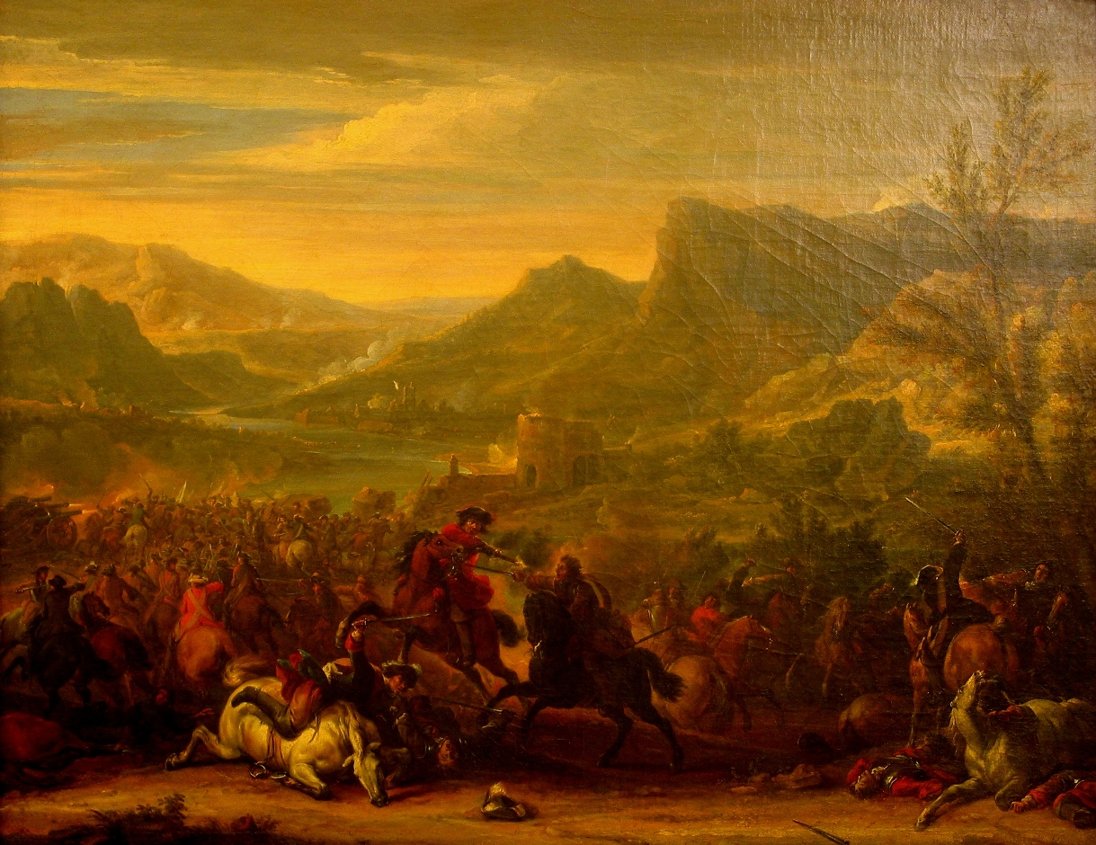 The battle of Calcinato 1706 (War of the Spanish Succession), painted by Jean Baptiste Martin (1659-1735). Oil on canvas, Heeresgeschichtliches Museum, Vienna, Austria.